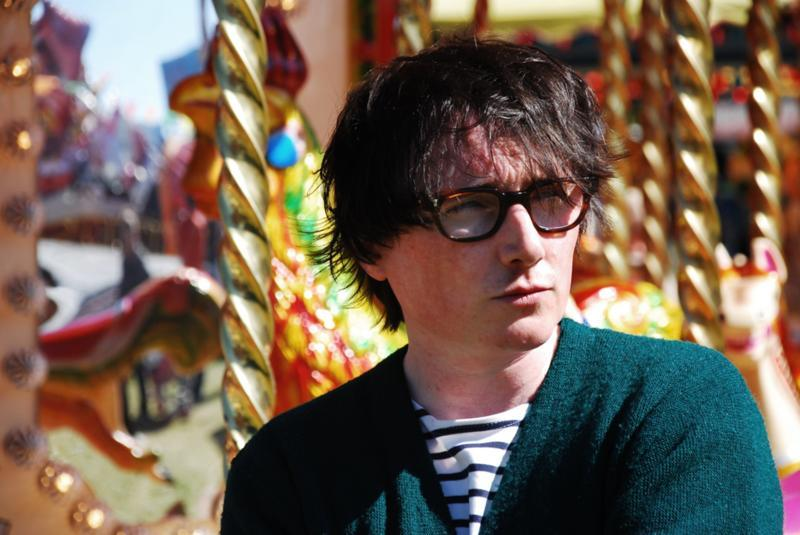 Publicity shot of our client Scottish actor/musician Keith Warwick